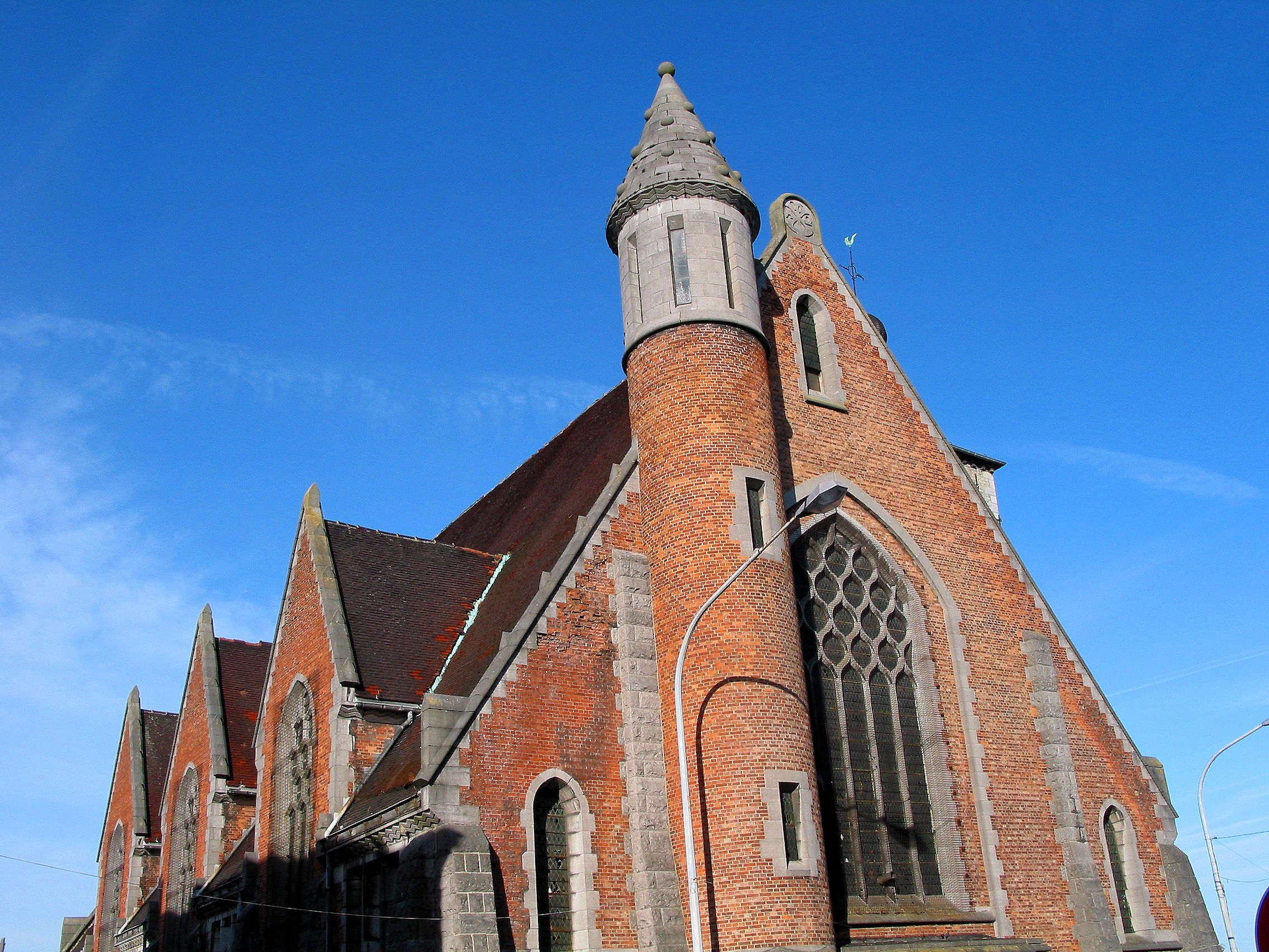 Anderlues (Belgium), nave of the previous Saint Medardus' church.